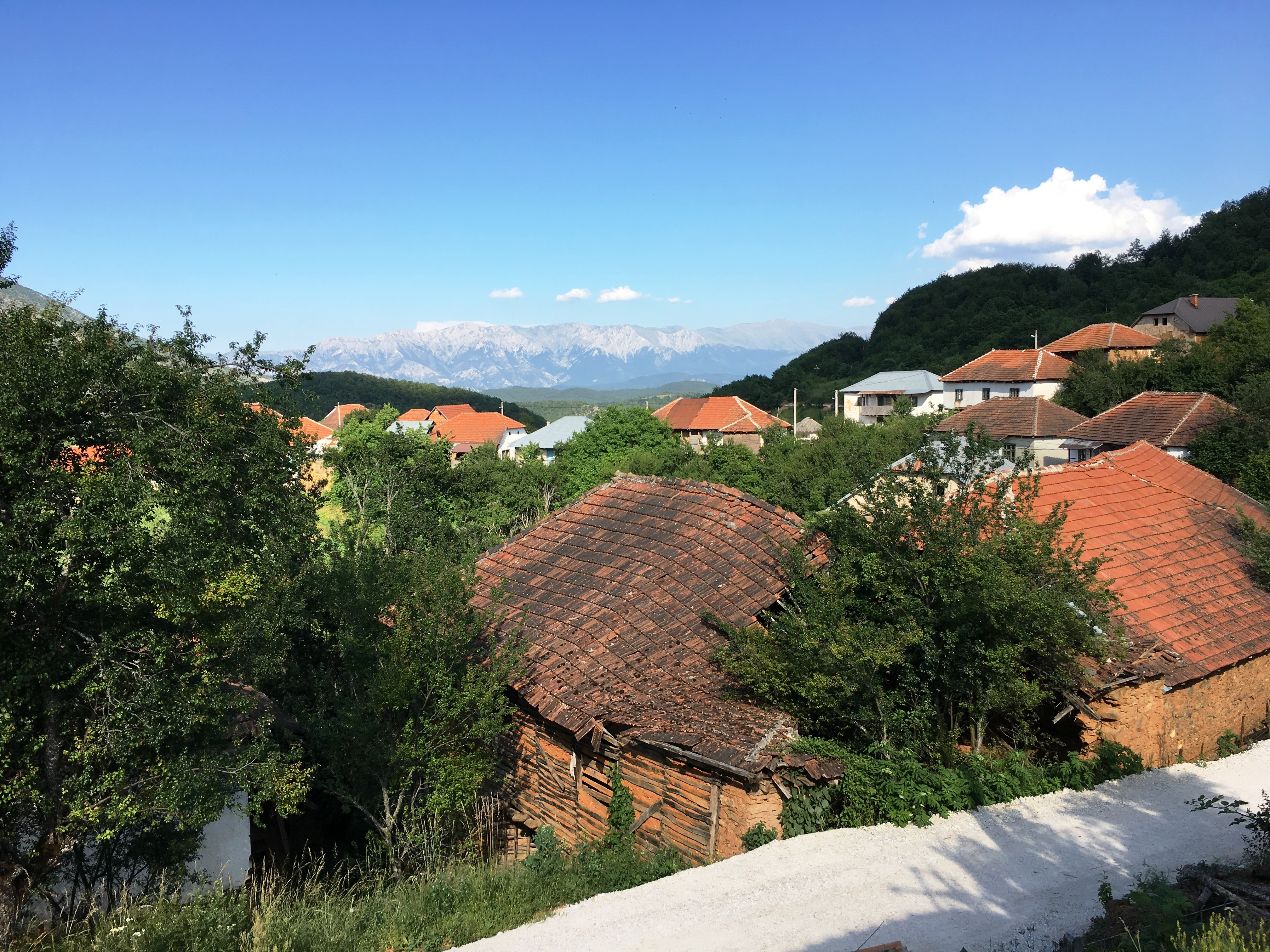 View of the village of Volče